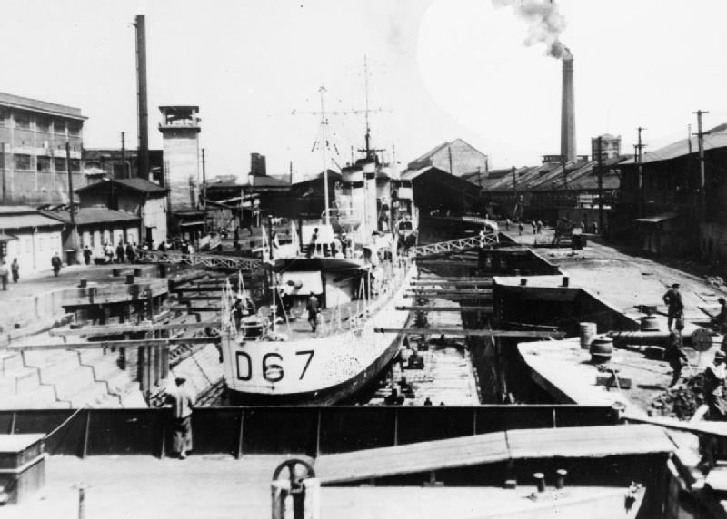 HMS Wishart In dry dock.